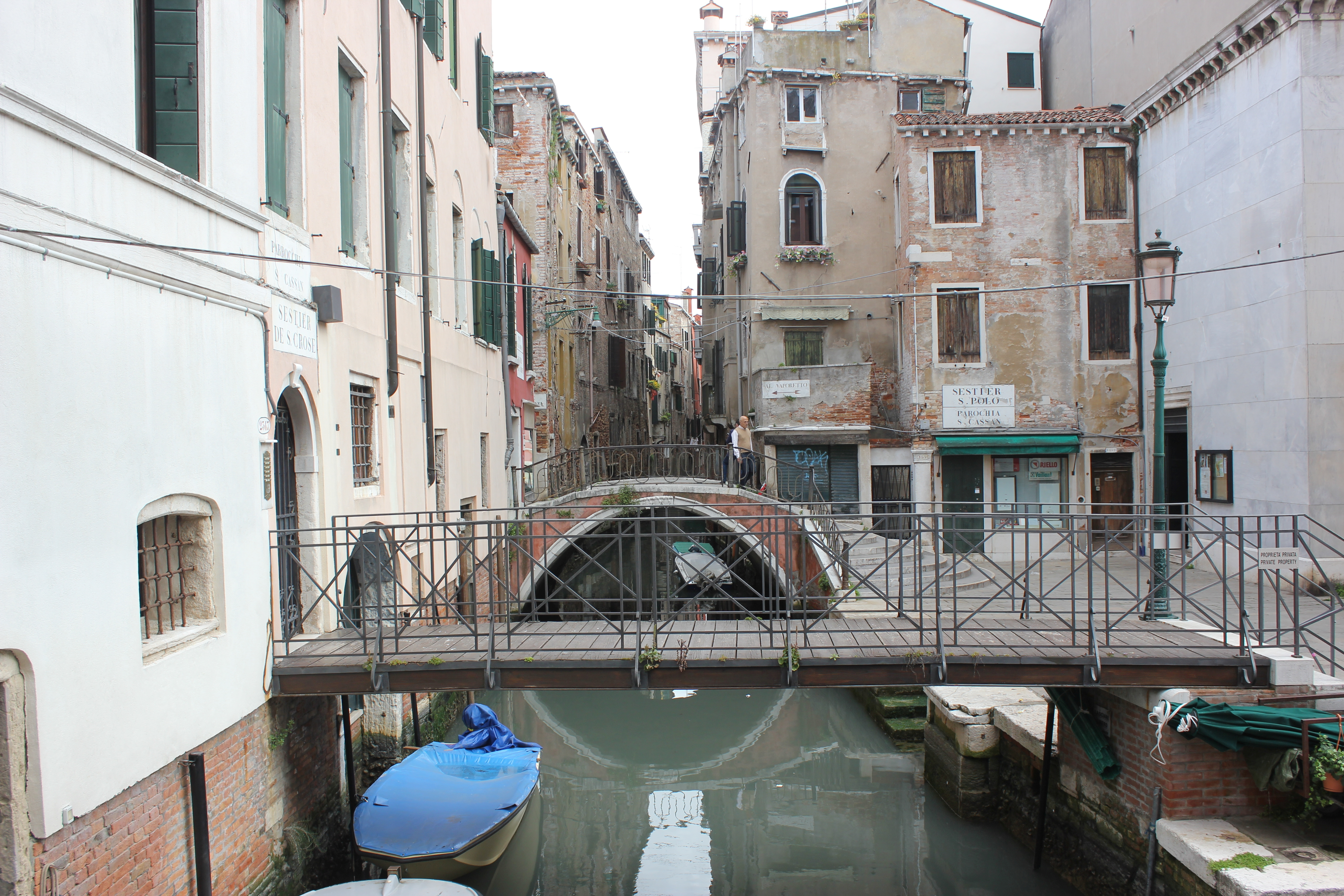 Venice - Rio de San Cassan